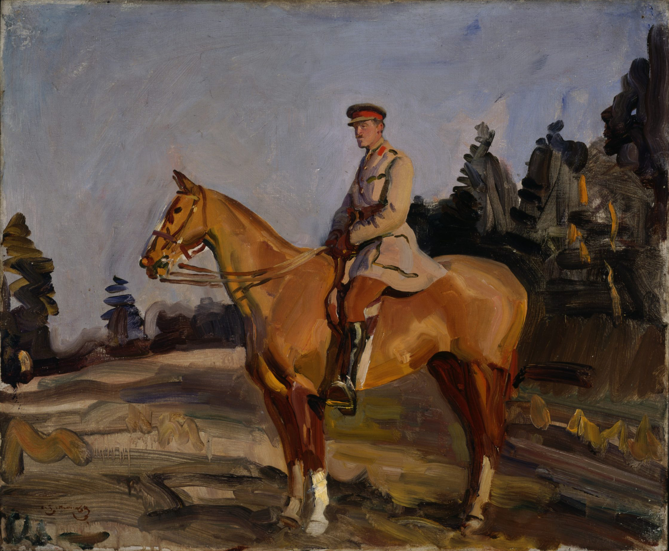 Late Major-General Geoffrey Brooke, CB, DSO, MC. At the time this was painted he was a British officer on the staff of the Canadian Cavalry Brigade.